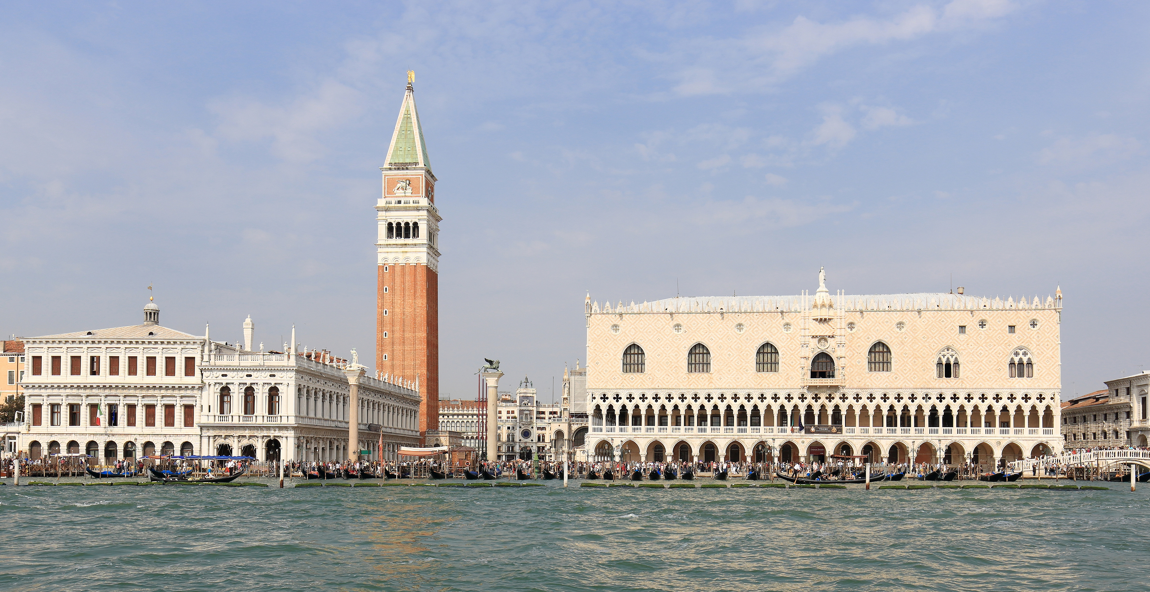 Zecca, Biblioteca Marciana, Saint Mark's Campanile, and Palazzo Ducale, Venice - part of UNESCO World Heritage Site Ref. Number 394.